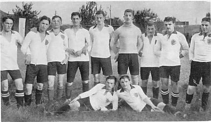 The football (soccer) team of the VfB Stuttgart in 1912.